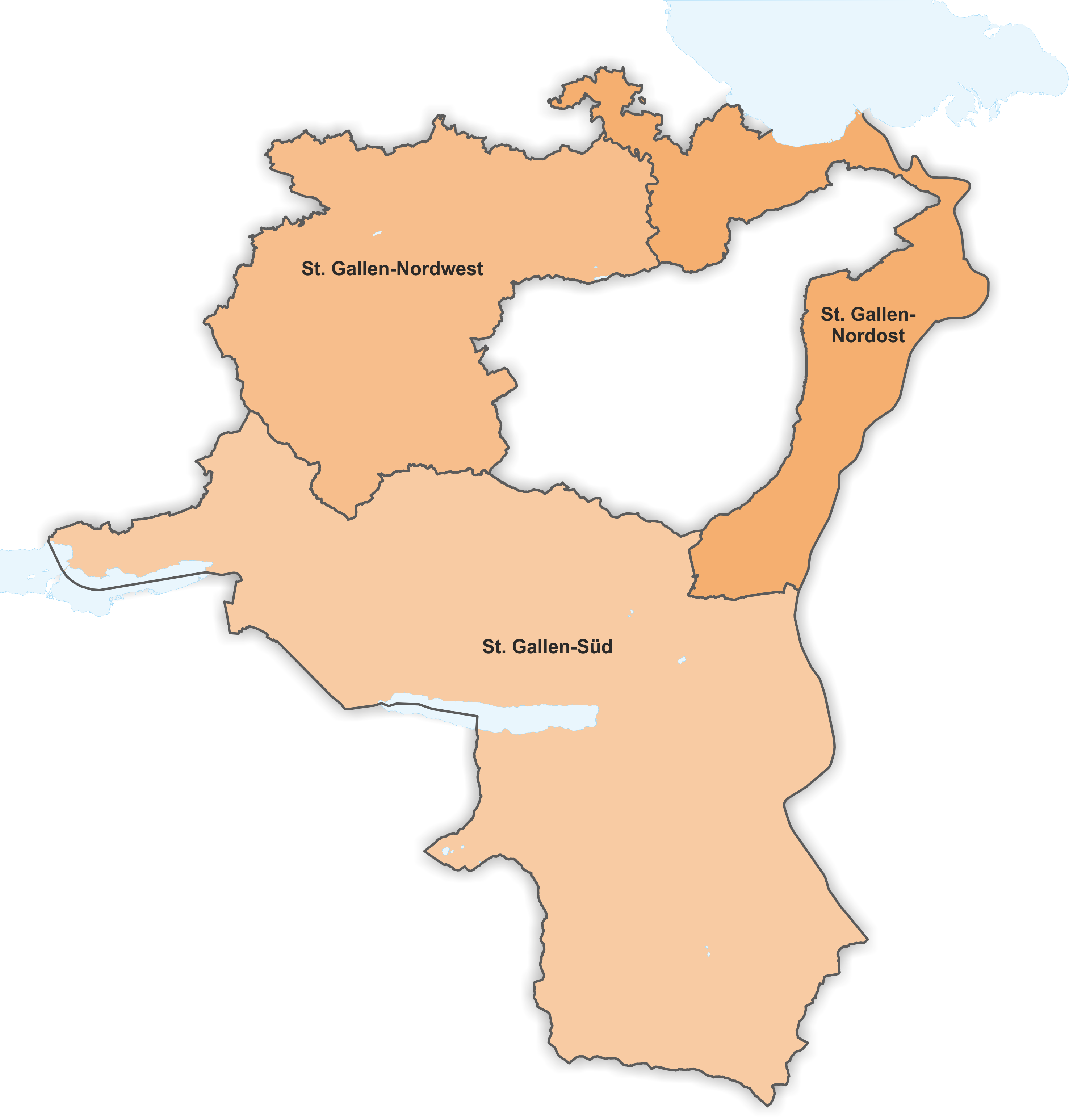 National council constituencies in the canton of St. Gallen from 1872 to 1878